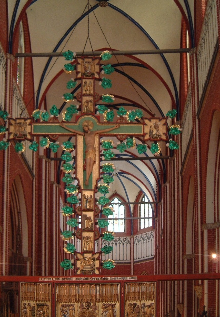 Bad Doberan - Crucifix in Bad Doberan Cathedral